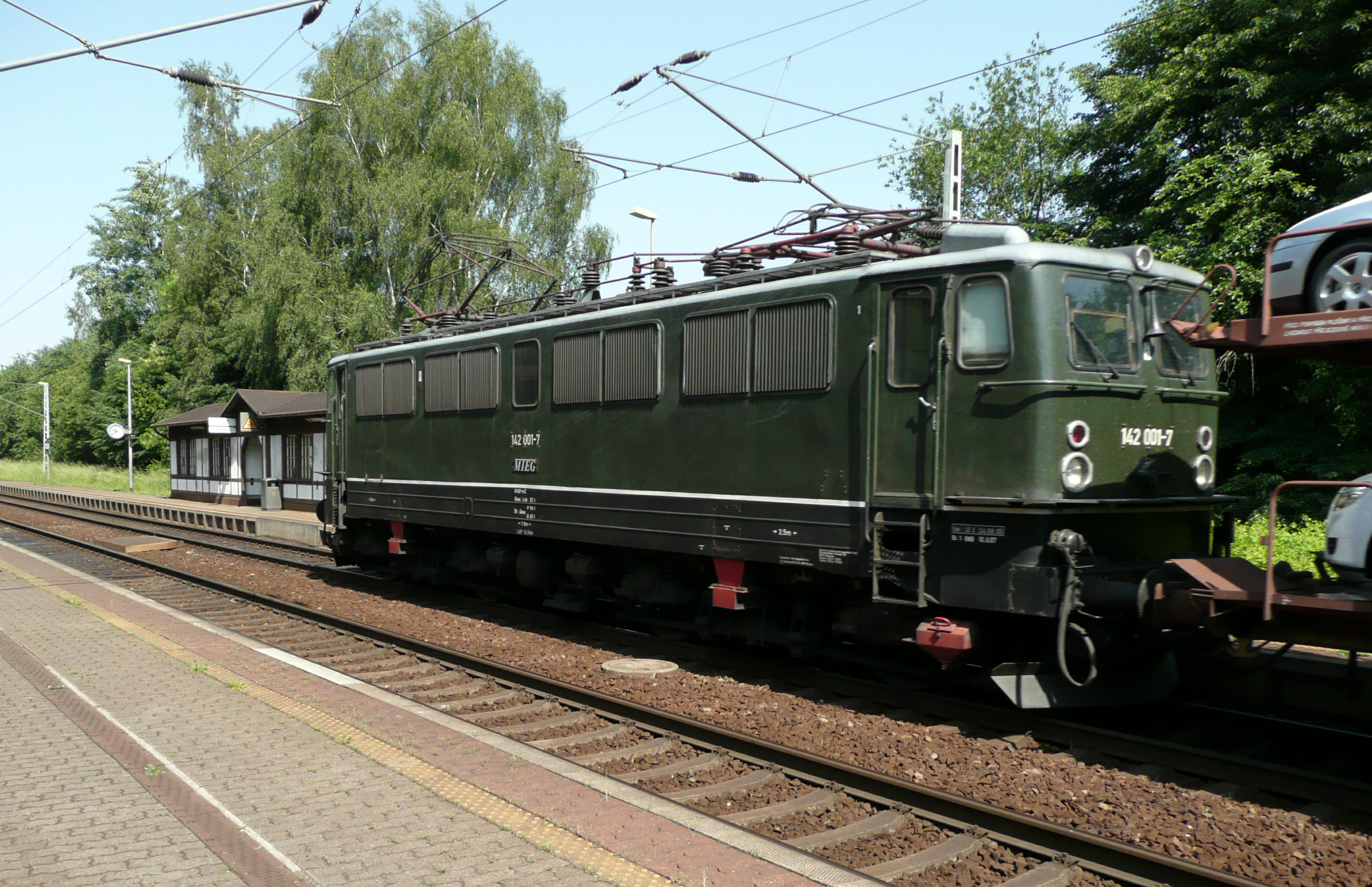 This image shows a freighttrain on the Děčín - Dresden rail line in Krippen. The locomotive is a class E 42 and belongs to the cargo operator "MTEG - Muldental Eisenbahnverkehrsgesellschaft mbH."